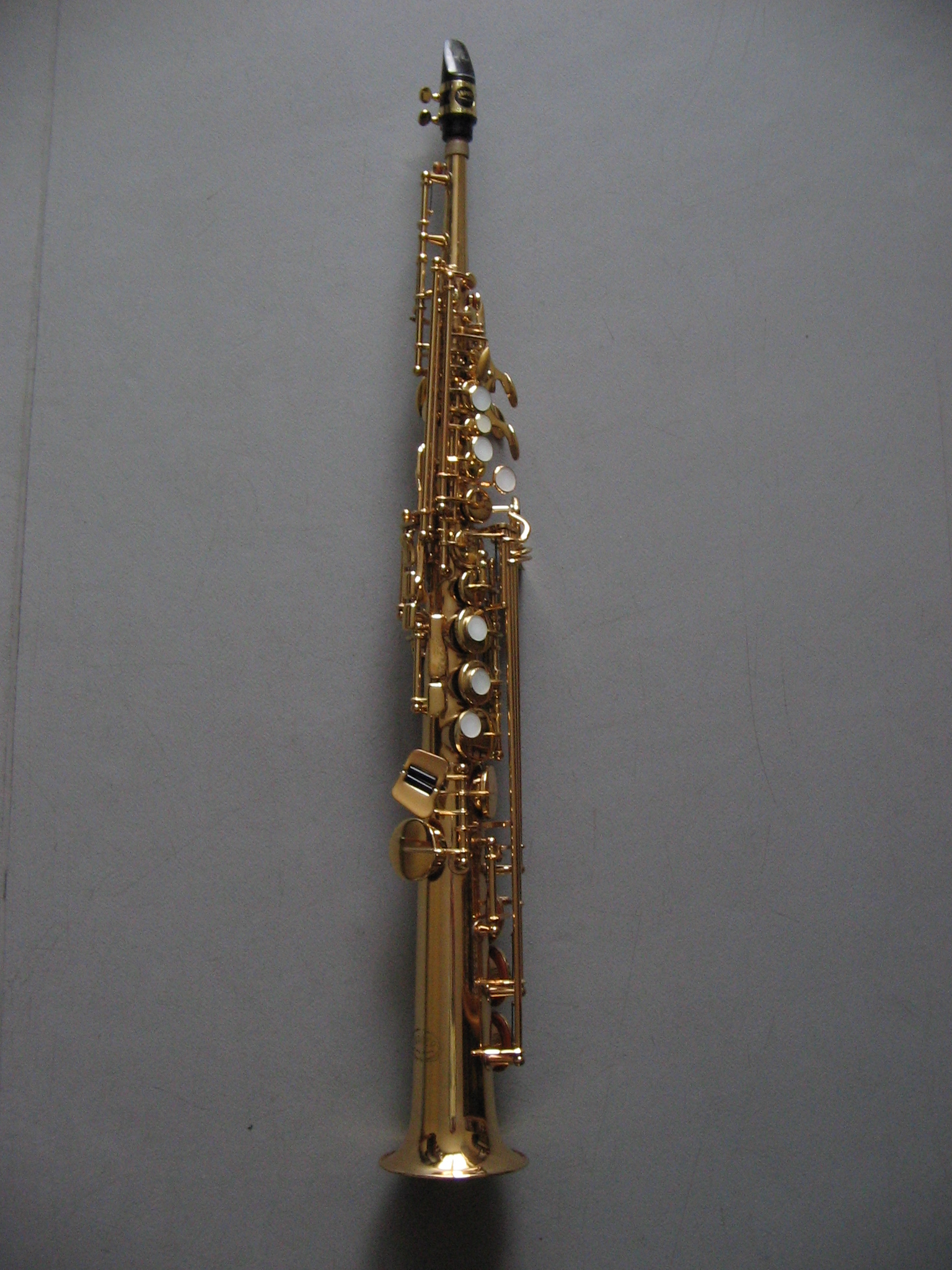 straight soprano saxophone